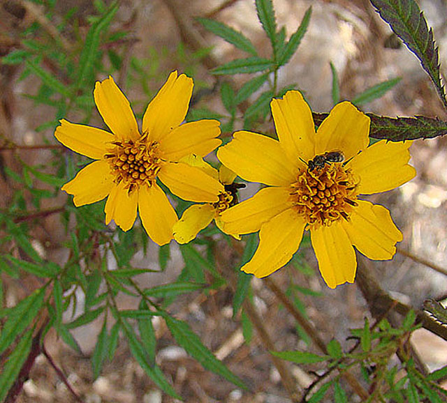 Mainly found in Mexico, where it is known as Tagete de Lemmon. UC Berkeley Botanical Gardens. In context at